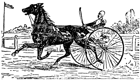 A Sulky